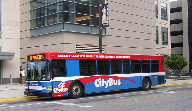 CityBus in West Lafayette, Indiana, July 2006.